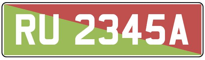 A Singapore restricted use vehicle registration plate.